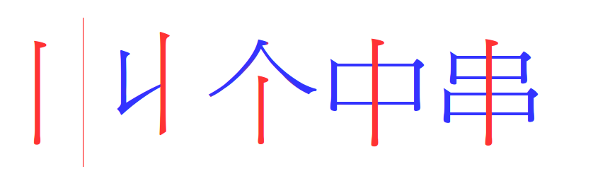 The 2nd radical from the Kangxi Dictionary is formed by solely a single vertical stroke: ⼁